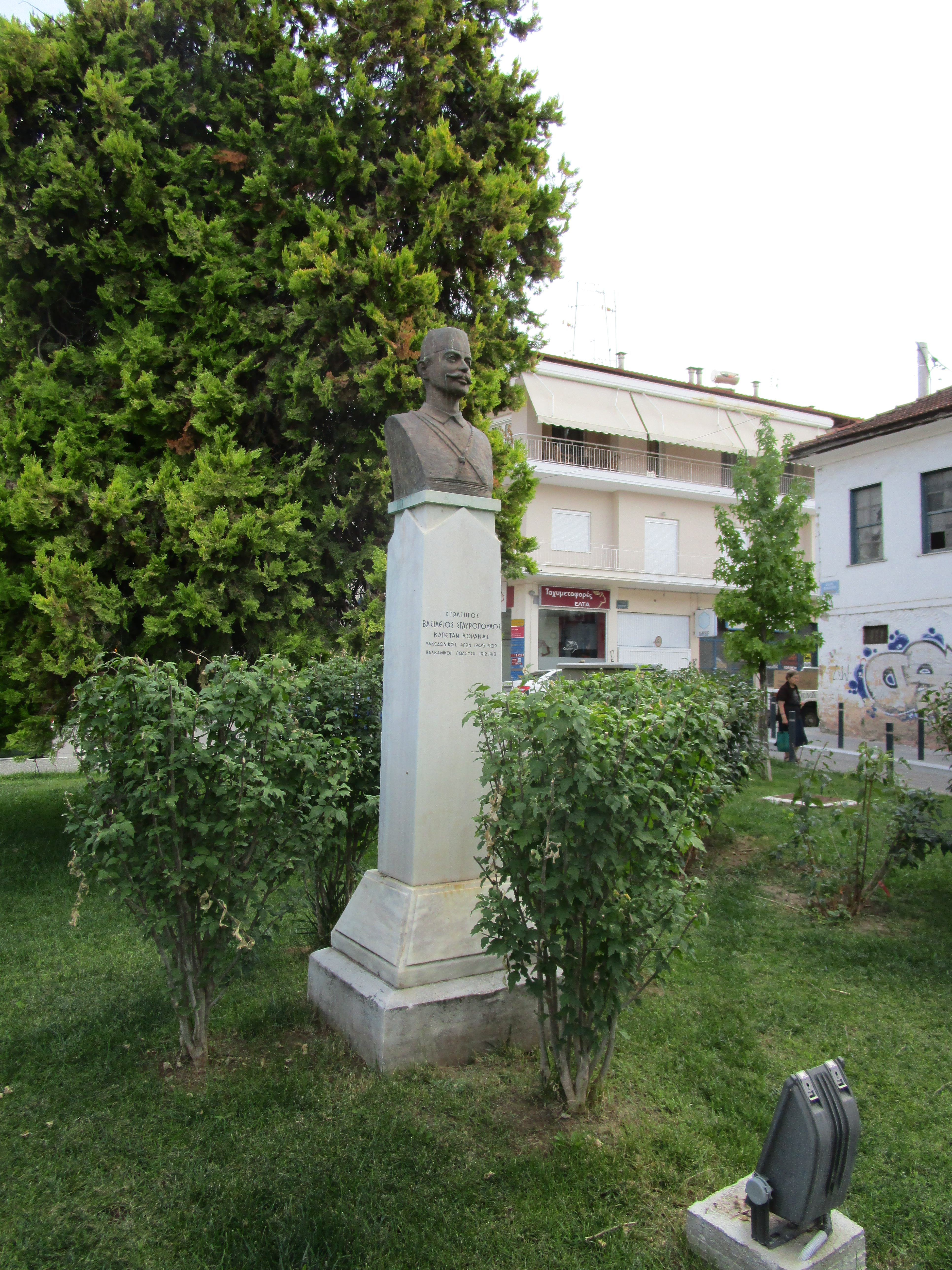 Vasilios Stavropulos